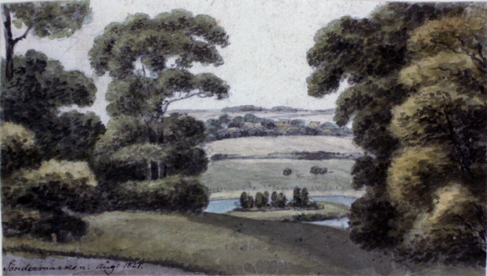 Søndermarken in Copenhagen, Denmark, Aug. 1827